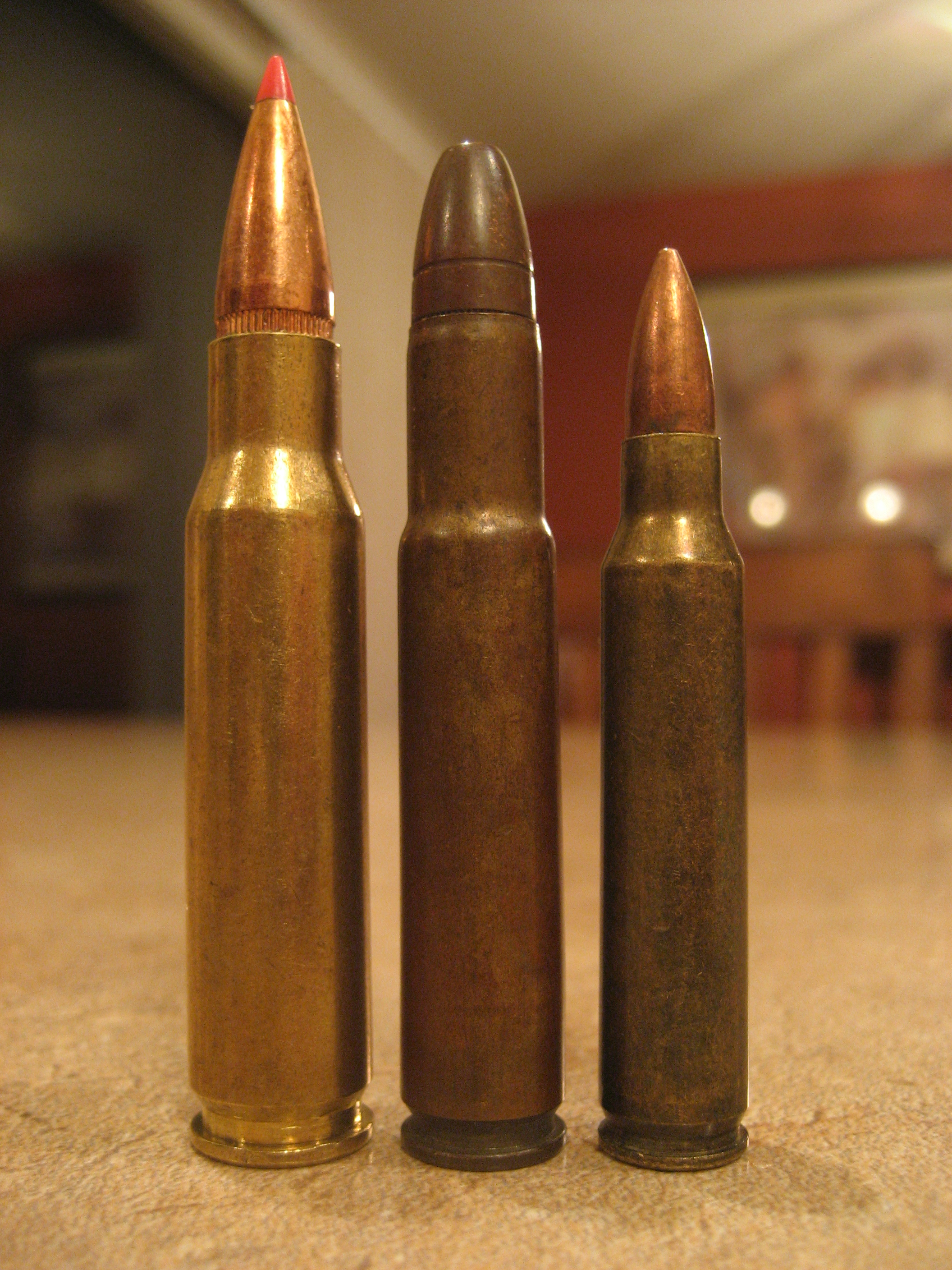 .308 Winchester (Left) .32 Remington (Middle) .223 Remington (Right)